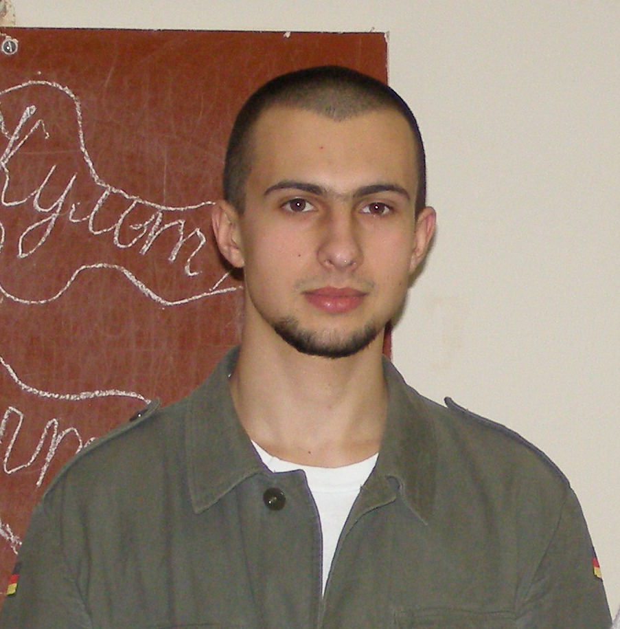 Liubko Deresh - ukrainian writer